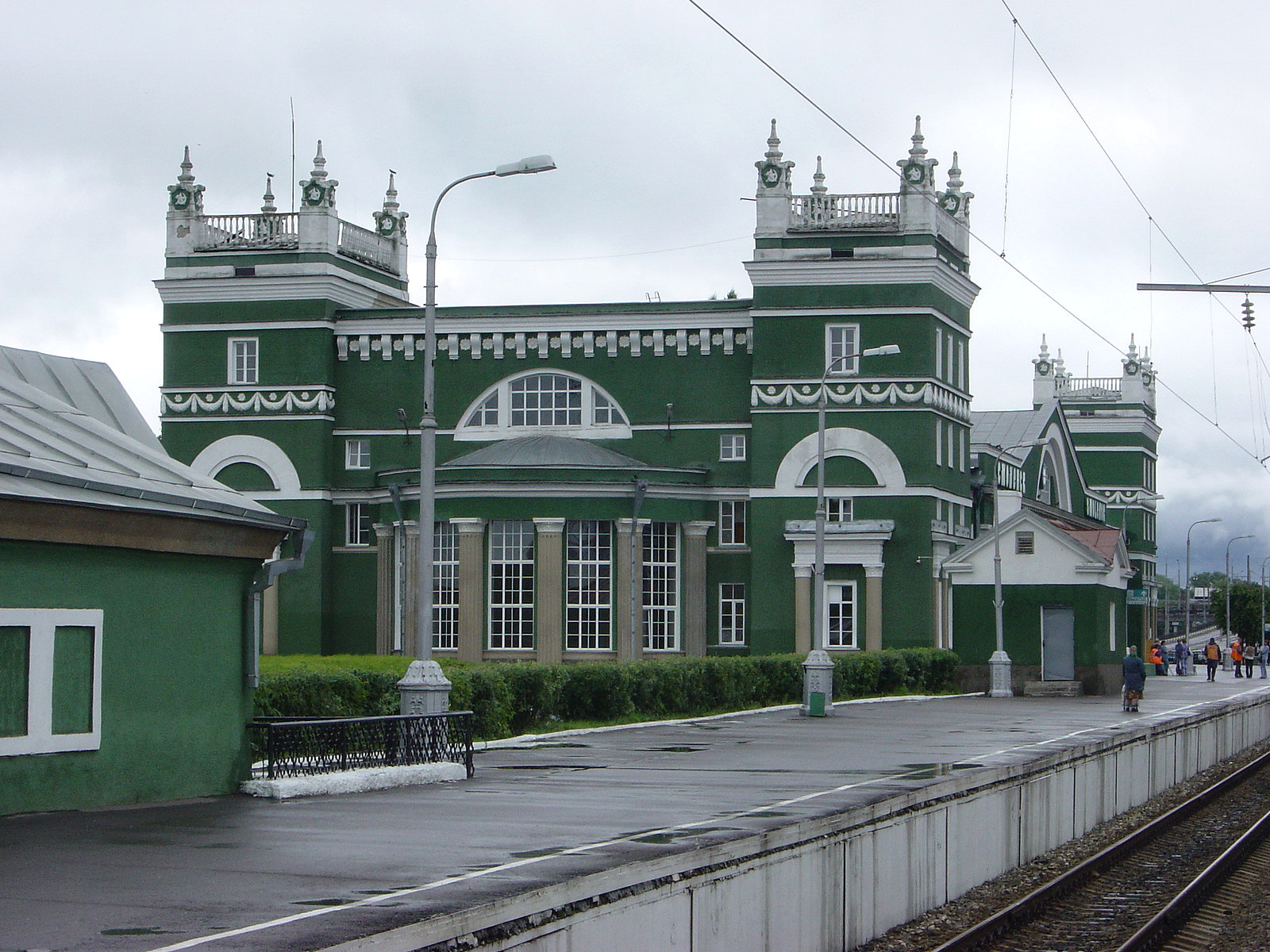 Train station in Smolensk, Russia